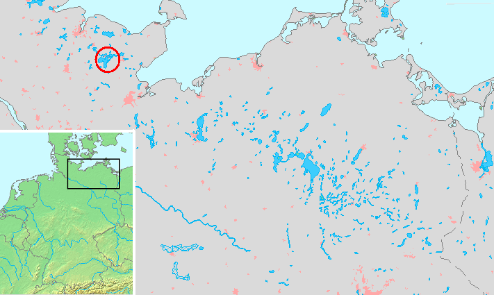 Locator maps of lakes in Germany : Location Grosser Ploner See.PNG